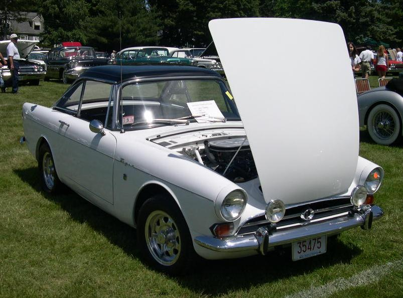 Sunbeam Tiger Source: Photographed at the Bay State Antique Automobile Club's July 10, 2005 show at the Endicott Estate in Dedham, MA by User:Sfoskett